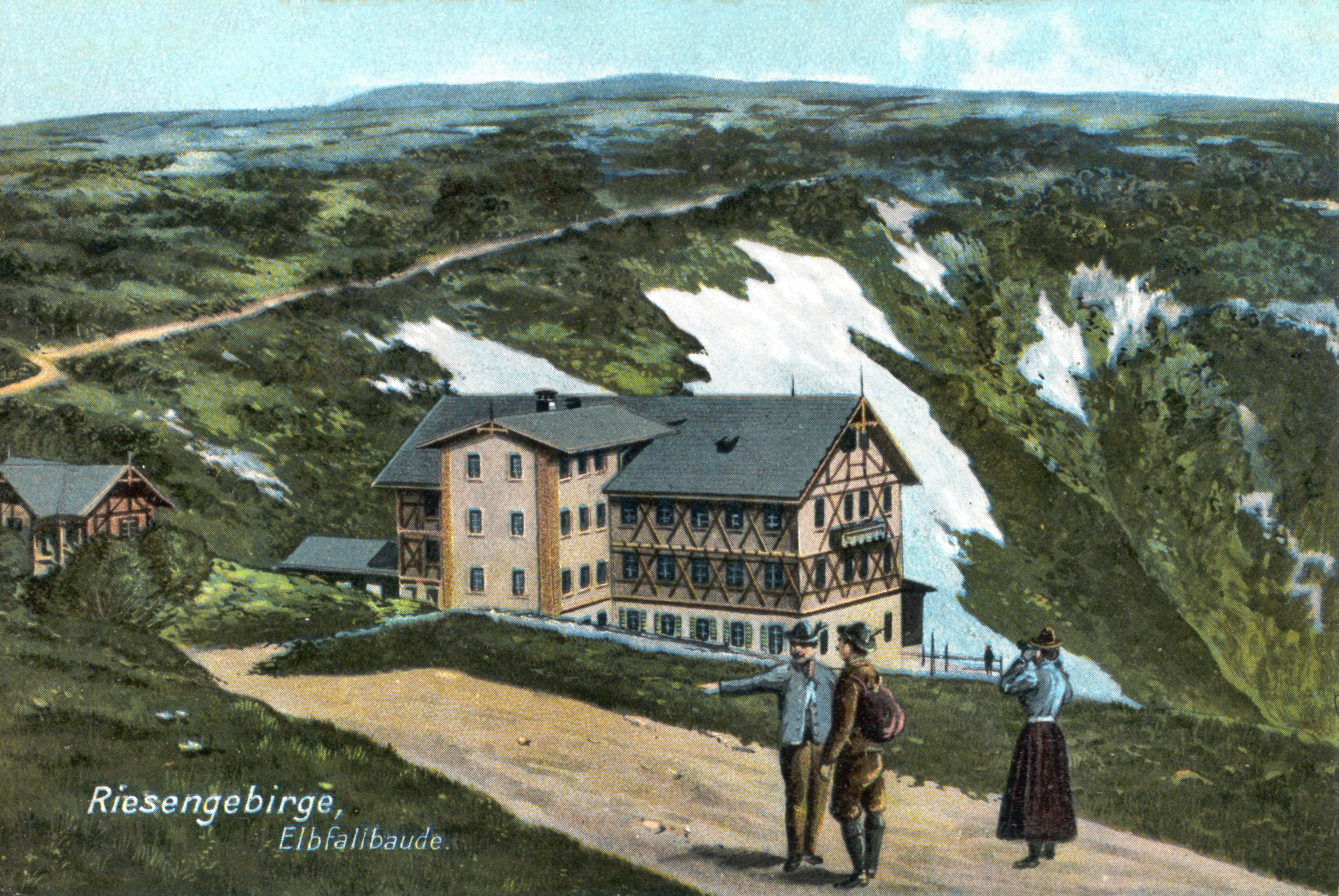 Labska bouda, Karkonosze, Austria-Hungary now Czech Republic.